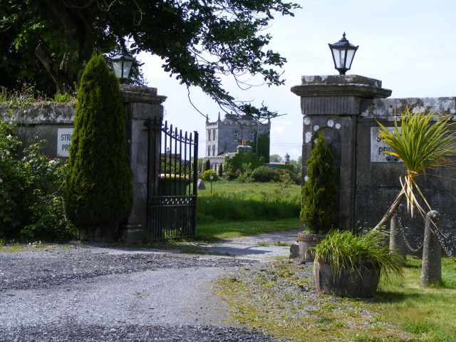 Kilcolgan Castle - Kilcolgan Townland, near to Newtown, Kilcolgan, Kilcolgan, Stradbally and Clarinbridge, Galway, Ireland.